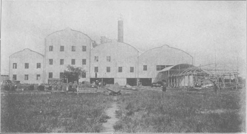 Meiji sugar mill